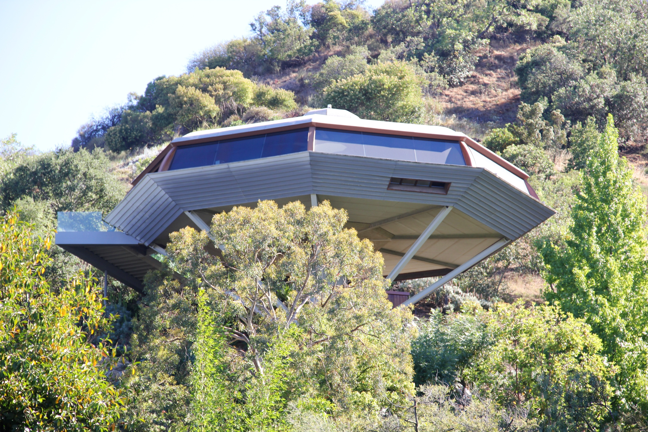 Chemosphere house detail